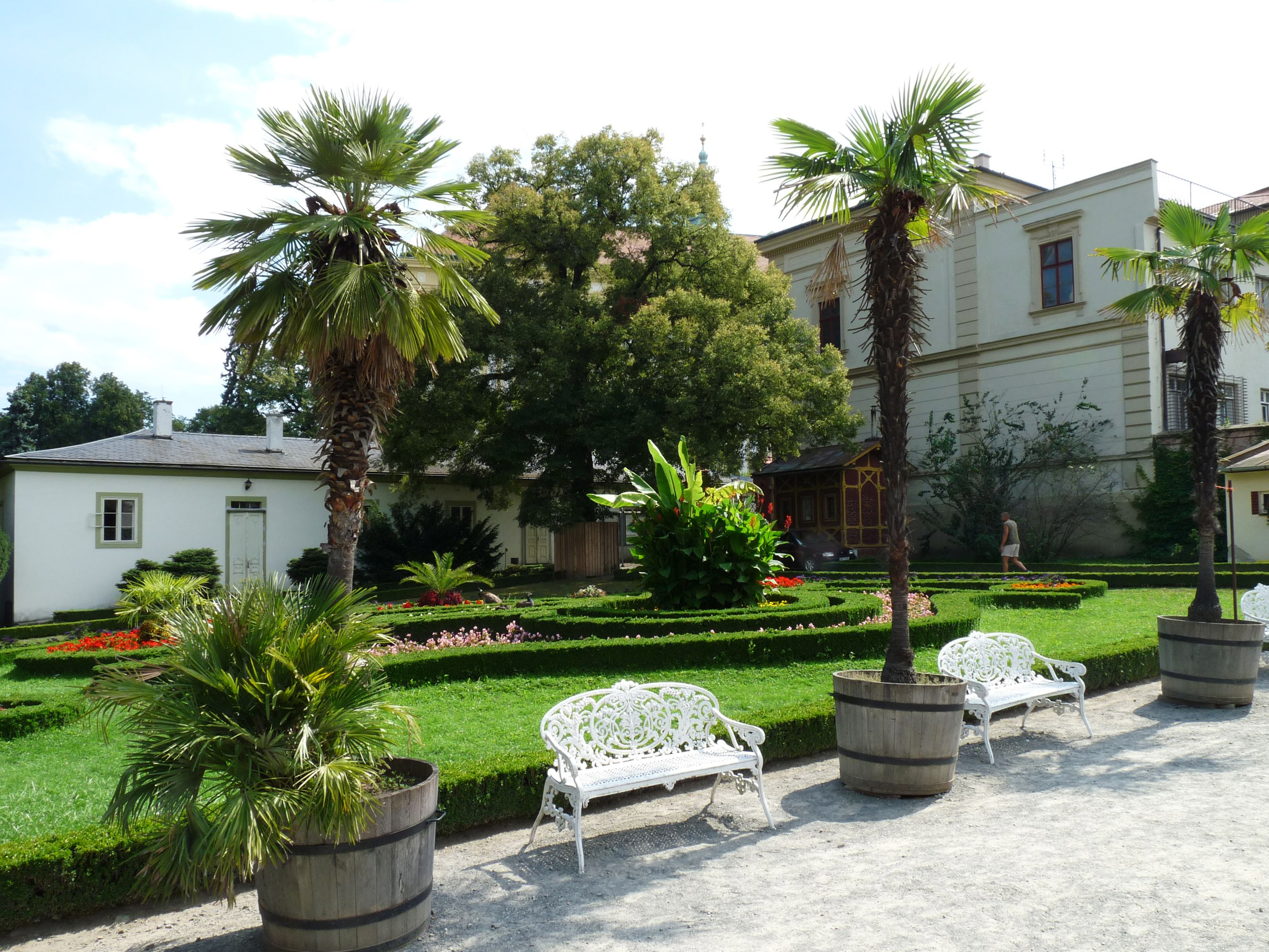 Podzámecká Garden in the town of Kroměříž, Zlín Region, Czech Republic.